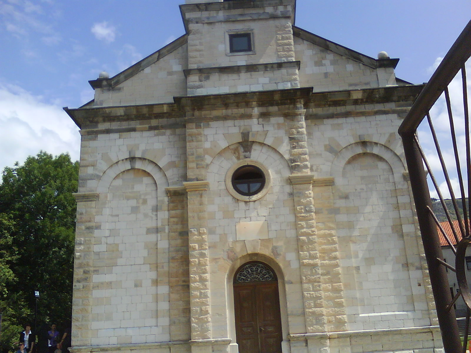 Roman Catholic church of All saints church in Livno